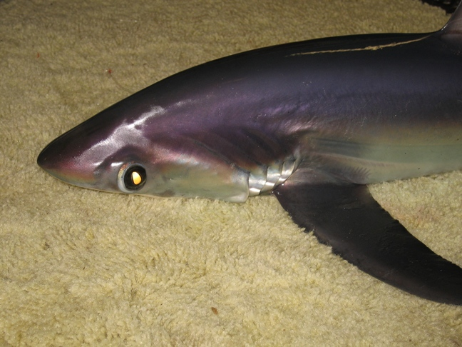 Pelagic thresher shark (Alopias pelagicus)